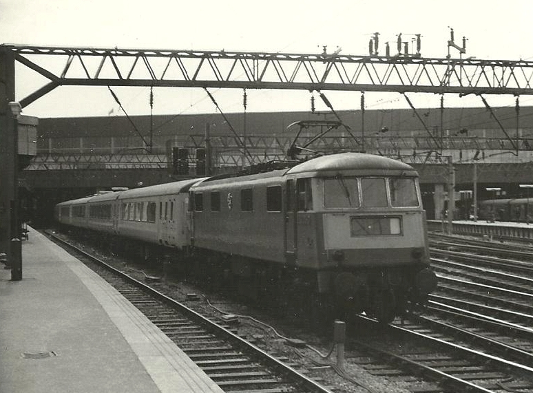 English Electric Class "AL3" (later Class "83") 25kV ac overhead 2,950 hp Bo-Bo No.E3030 (later 83 007) in BR Electric Blue livery leaving Euston with the Manchester Pullman, 07/66. Scanned photograph taken with a Kowa SET camera.